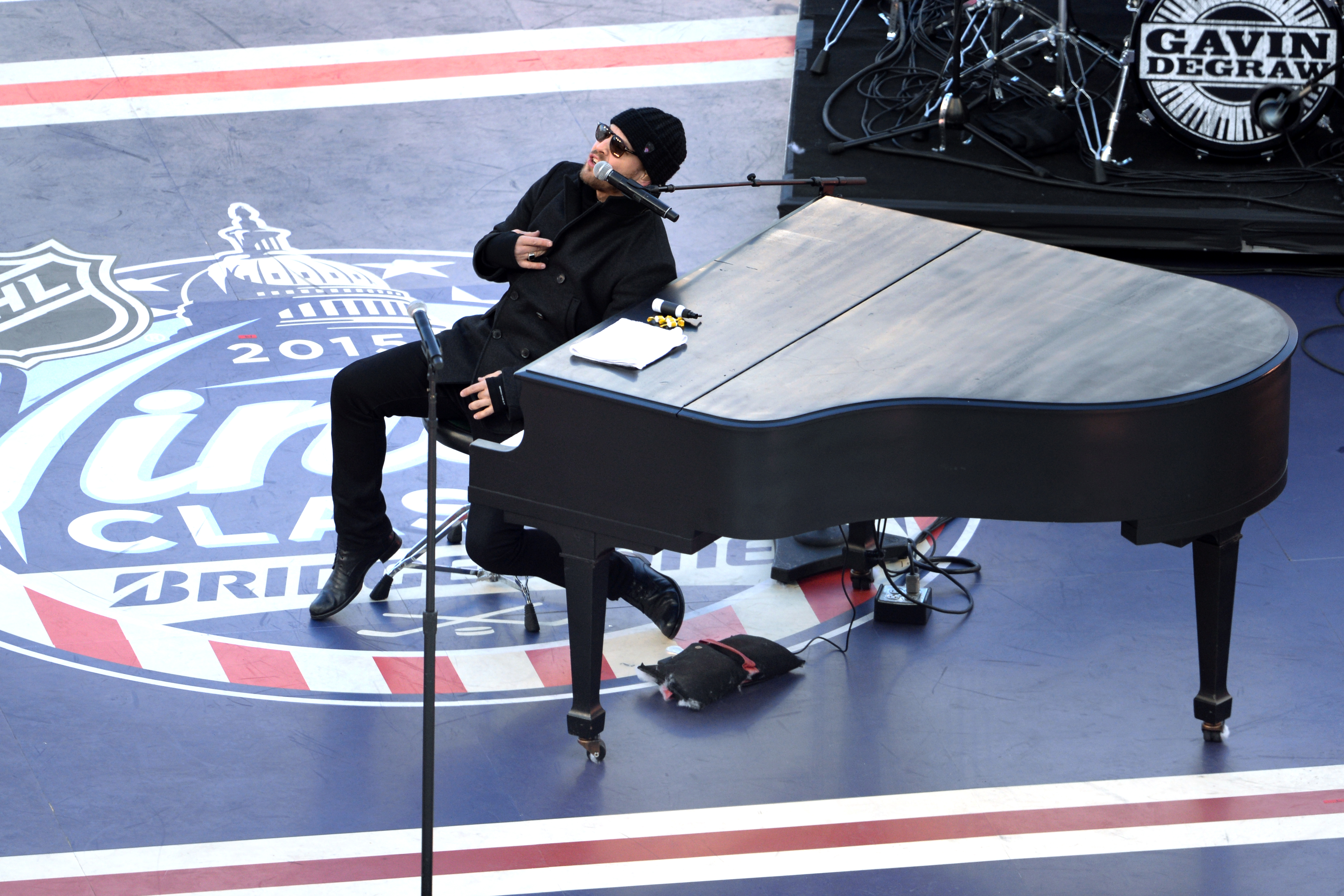 Recording artist Gavin DeGraw performs during the 2015 Winter Classic at Nationals Park in Washington D.C. Jan. 1, 2015. The hockey game played in the outdoor Nationals baseball stadium featured the Washington Capitals and the Chicago Blackhawks. (DoD News photo by EJ Hersom)